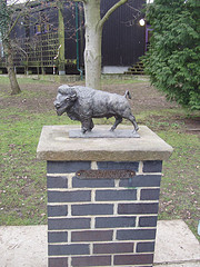 This was donated to Gilwell Park, England in honor of the Unknown Scout who brought Scouting to America. See William D. Boyce.